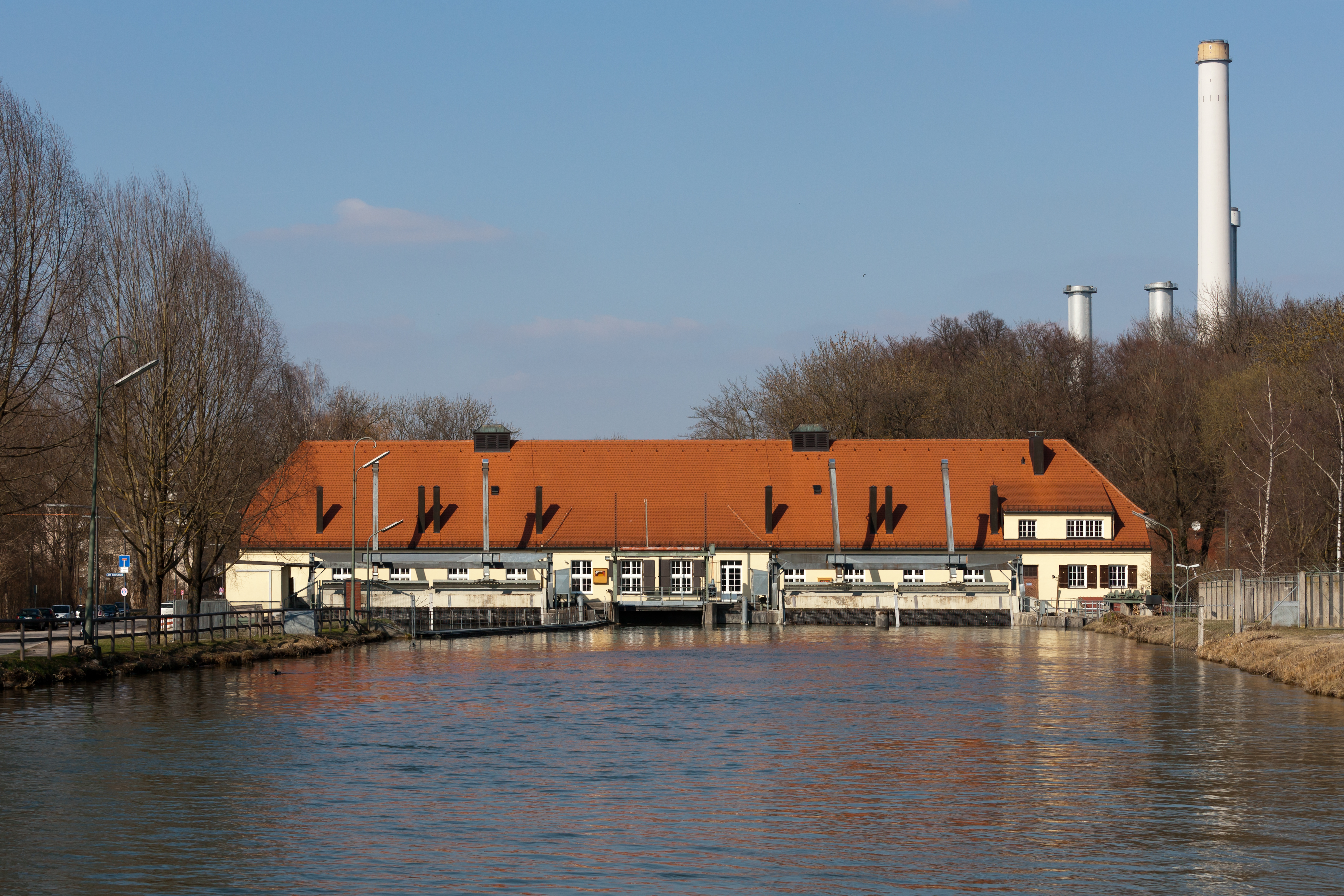 Feed of river power plant Isar 2, Isarkanal, Munich, Germany